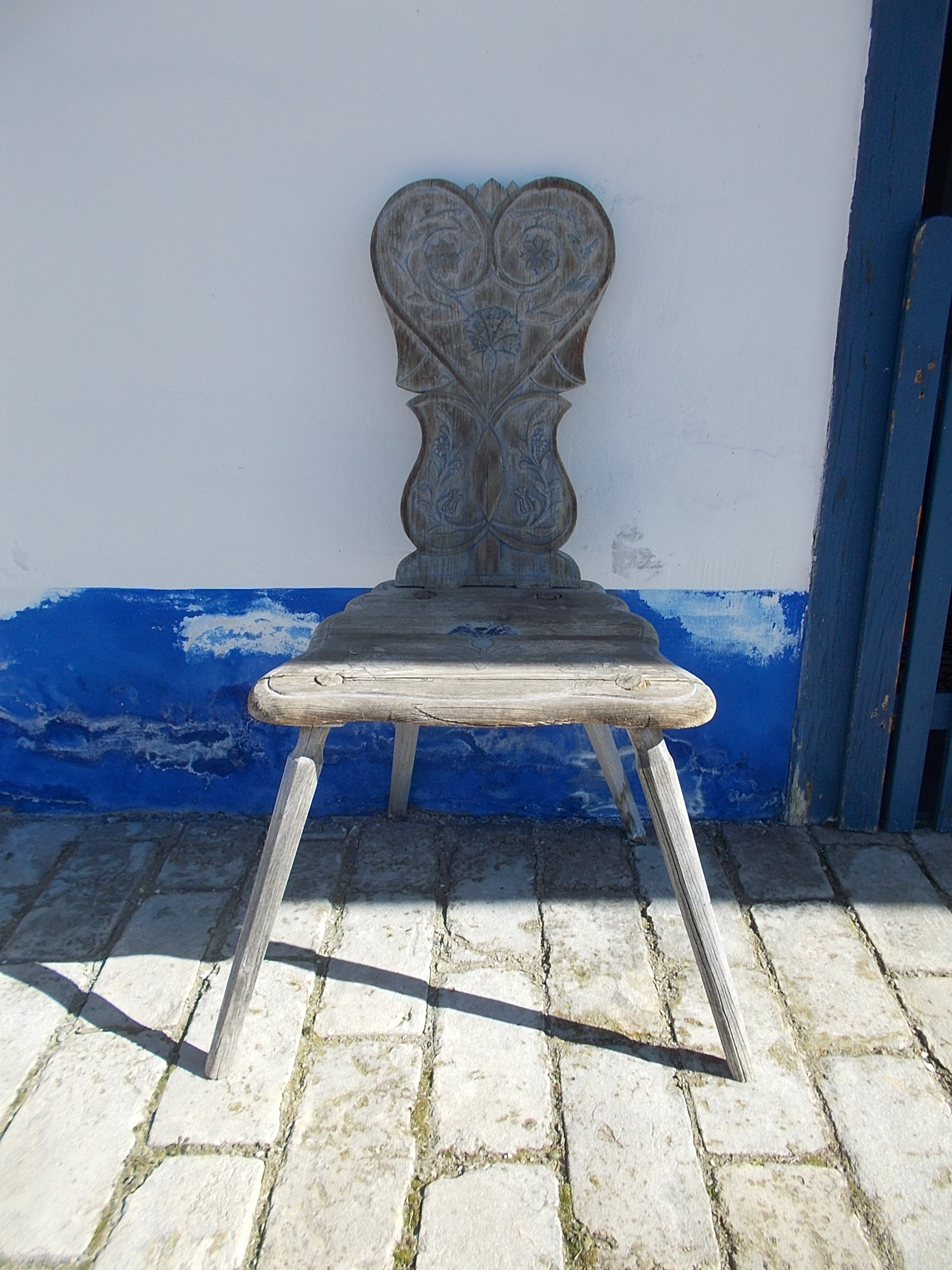 Folk Art House. A farmer house. A thached mud bricks house. [1]. In the courtyard a circa three meter high wooden column above its a folk motifs painted carved? part and a small tiled roof by Mihály Kátai Jr. (1935-) 1978 Abstract? works. - Kalocsa, Bács-Kiskun County.